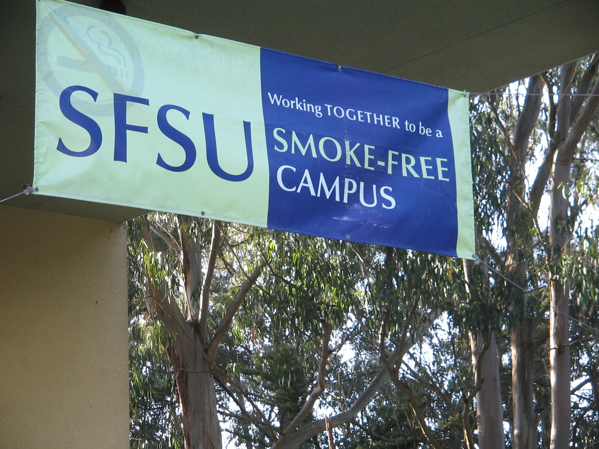 This is a banner for a smoke-free campus.